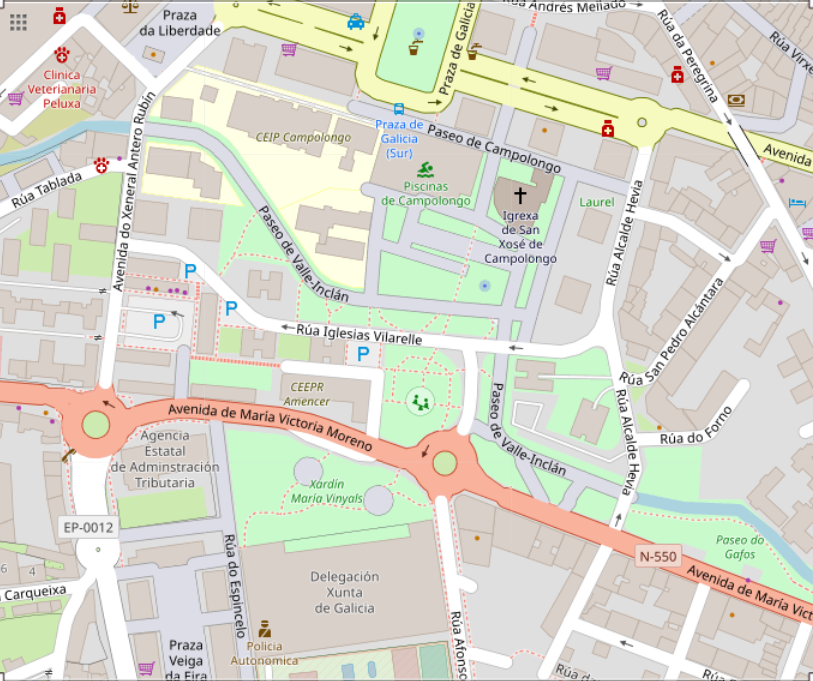 Geographic limits of the map: N: 42.42852° S: 42.42405° W: -8.64809° E: -8.64078°